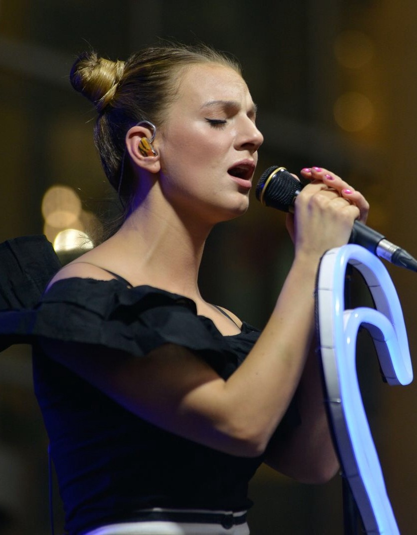 Vocalist Sarsa, Marta Markiewicz during show in Bielsko-Biala, Poland, music photography